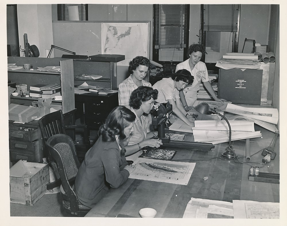 Women geologists with the USGS Military Geology Unit working on maps for the Allied WWII war effort. Ruth A. M. Schmidt is in the center.